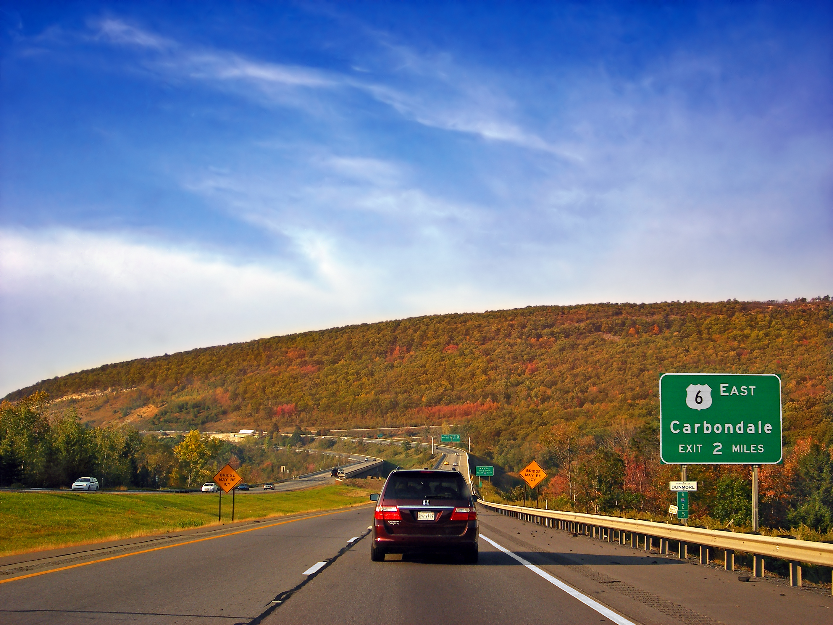 Interstate 380 North, Lackawanna County.